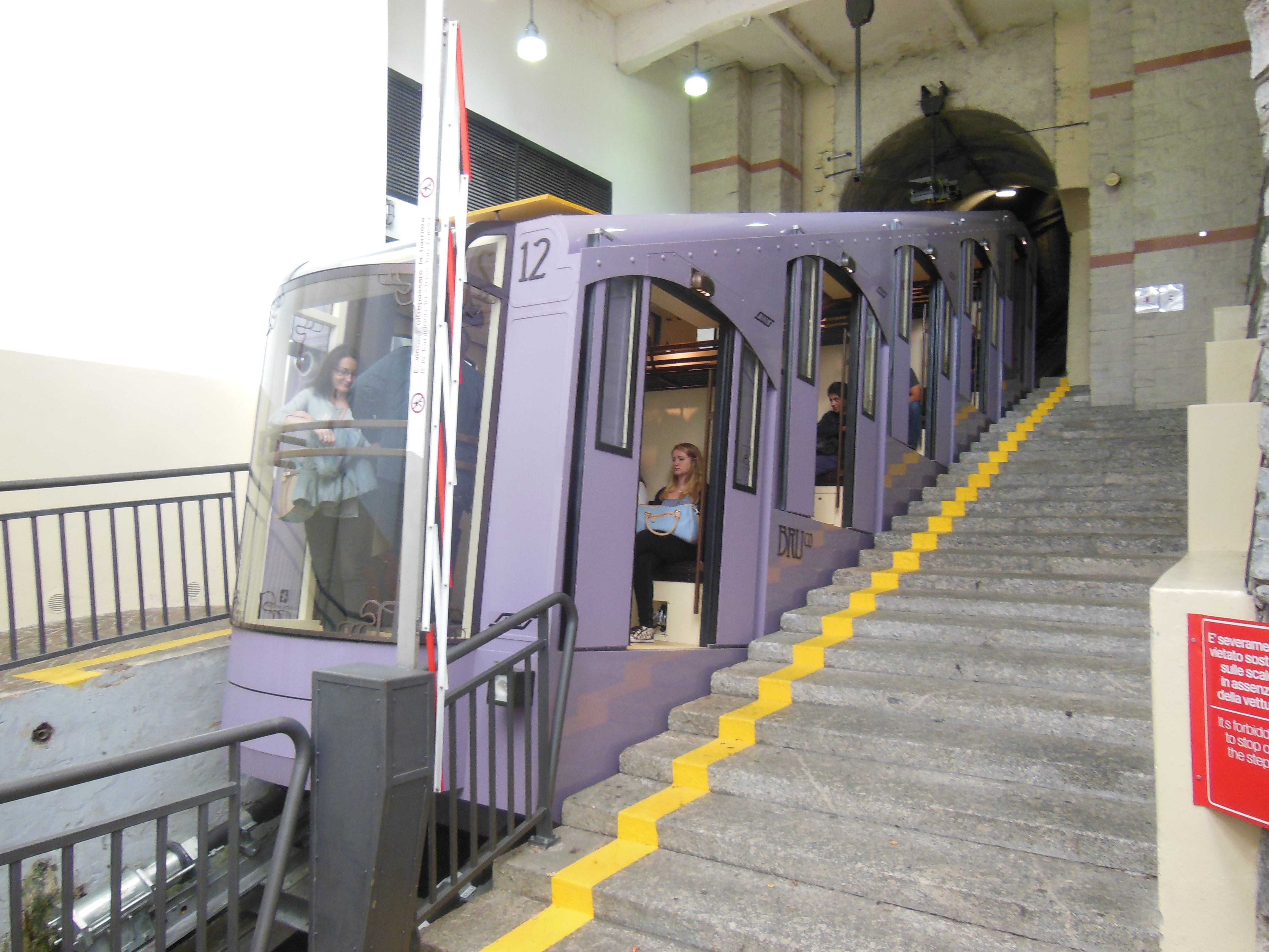 A car in the lower station of the Como–Brunate funicular, with the tunnel mouth visible behind the car. For more information, see the wikipedia article Como–Brunate funicular.